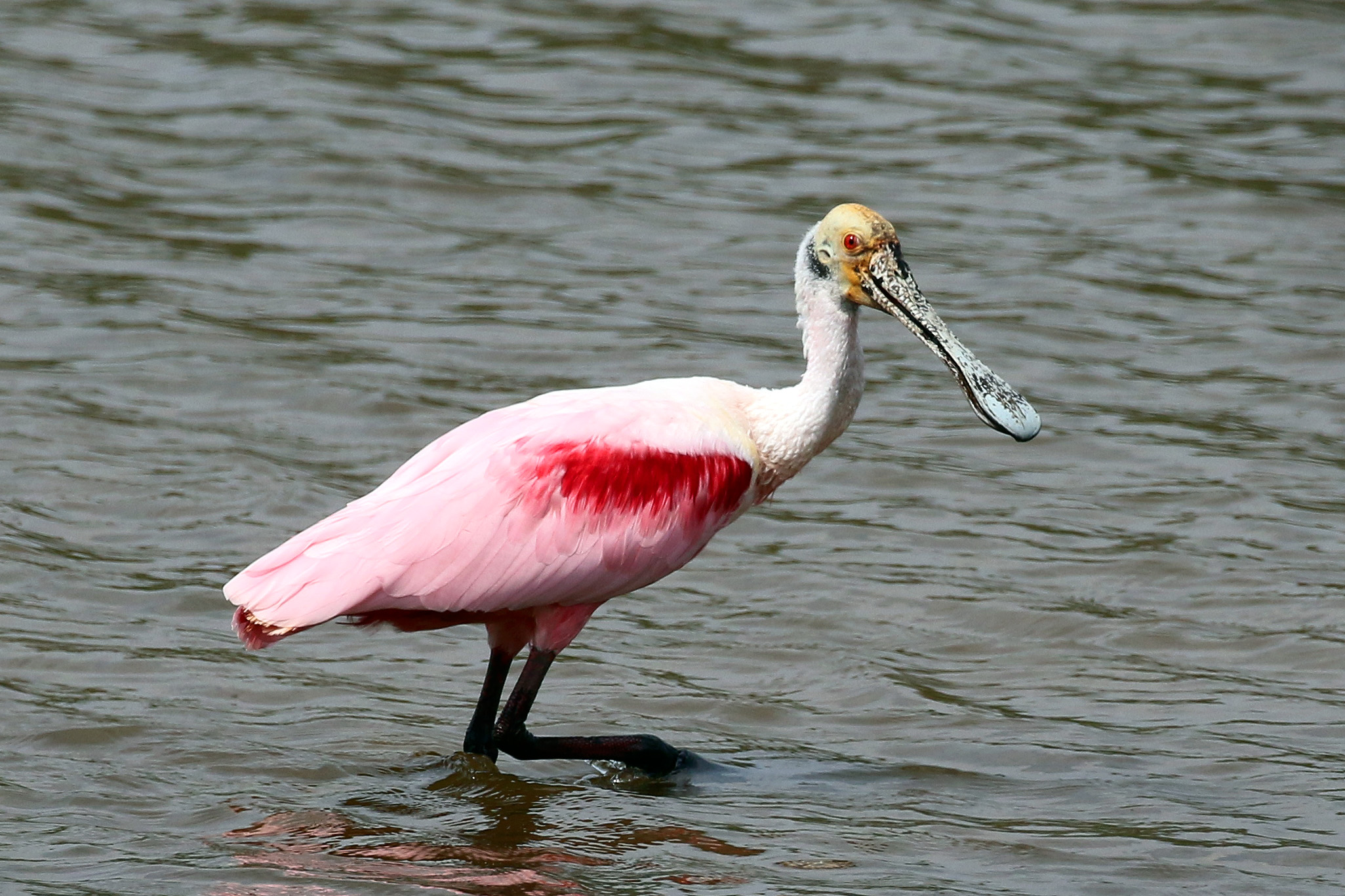 Roseate spoonbill (Ajaia ajaja), the Pantanal, Brazil